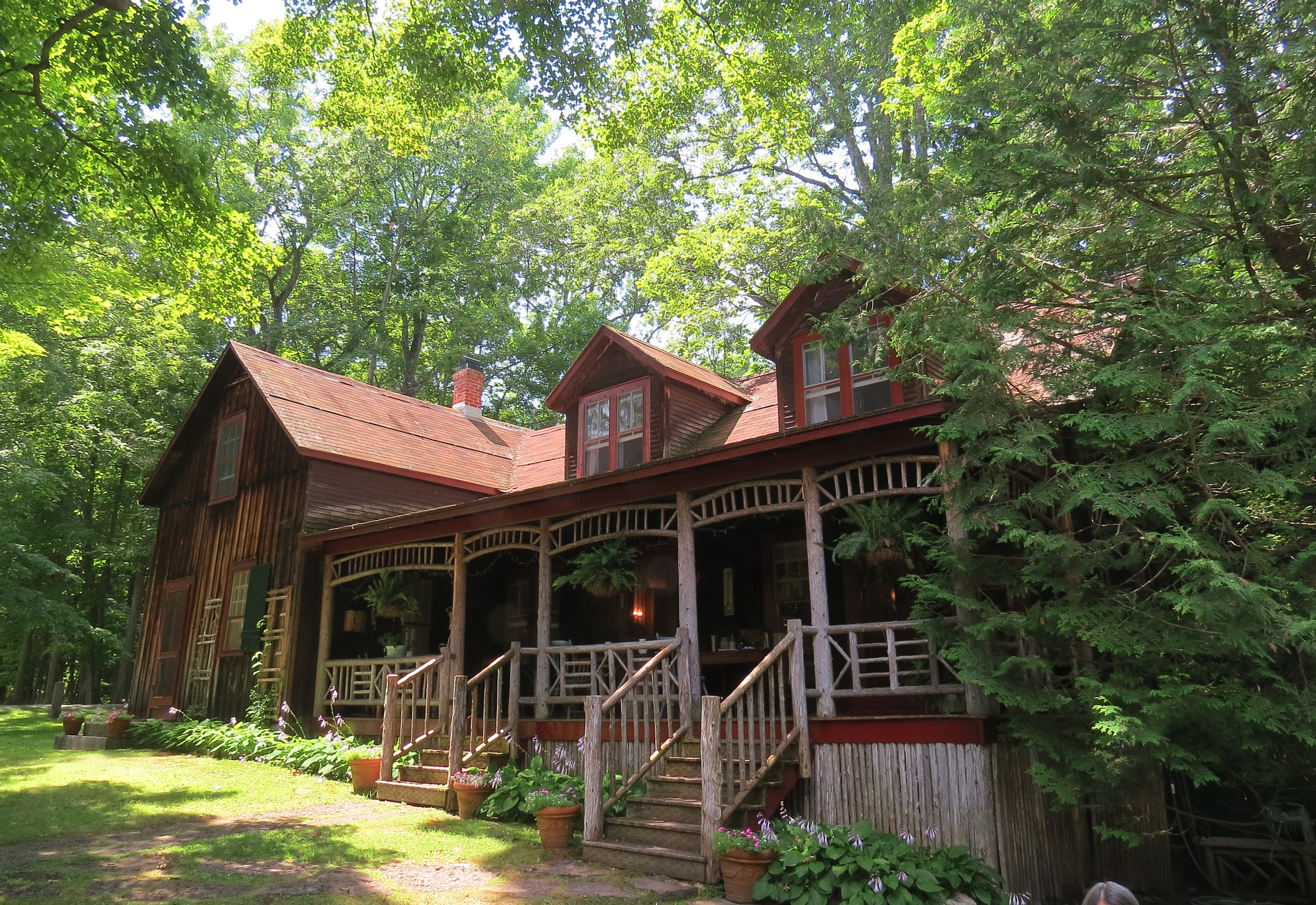 Scragwood, Ligonier Point, Willsboro, New York, part of the Ligonier Point Historic District